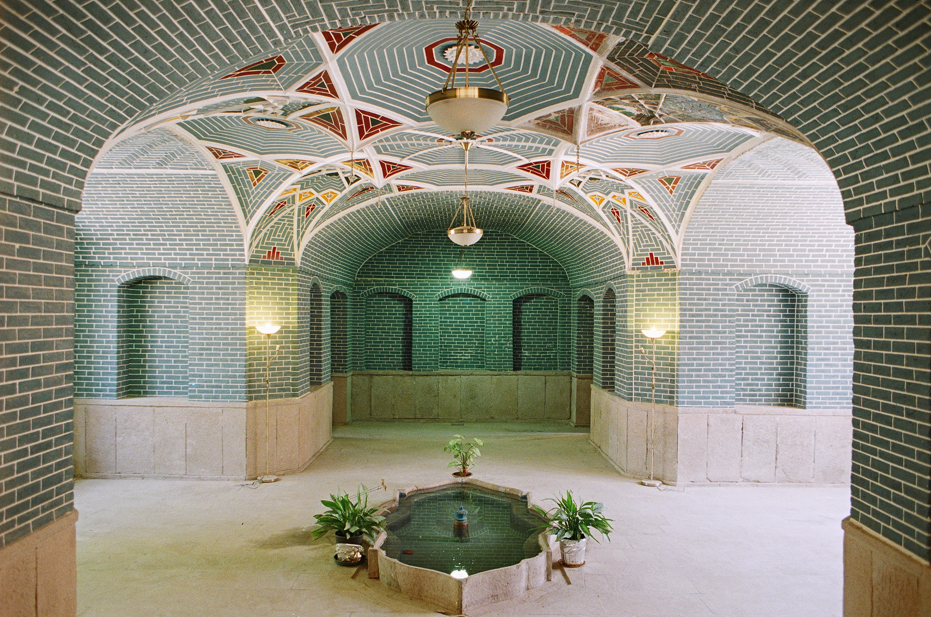 Shabestan and spring-house of Haidarzadeh house — Tabriz, Iran.